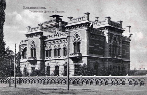 Vladikavkaz in the beginning of XX-th century. The City Duma and council.